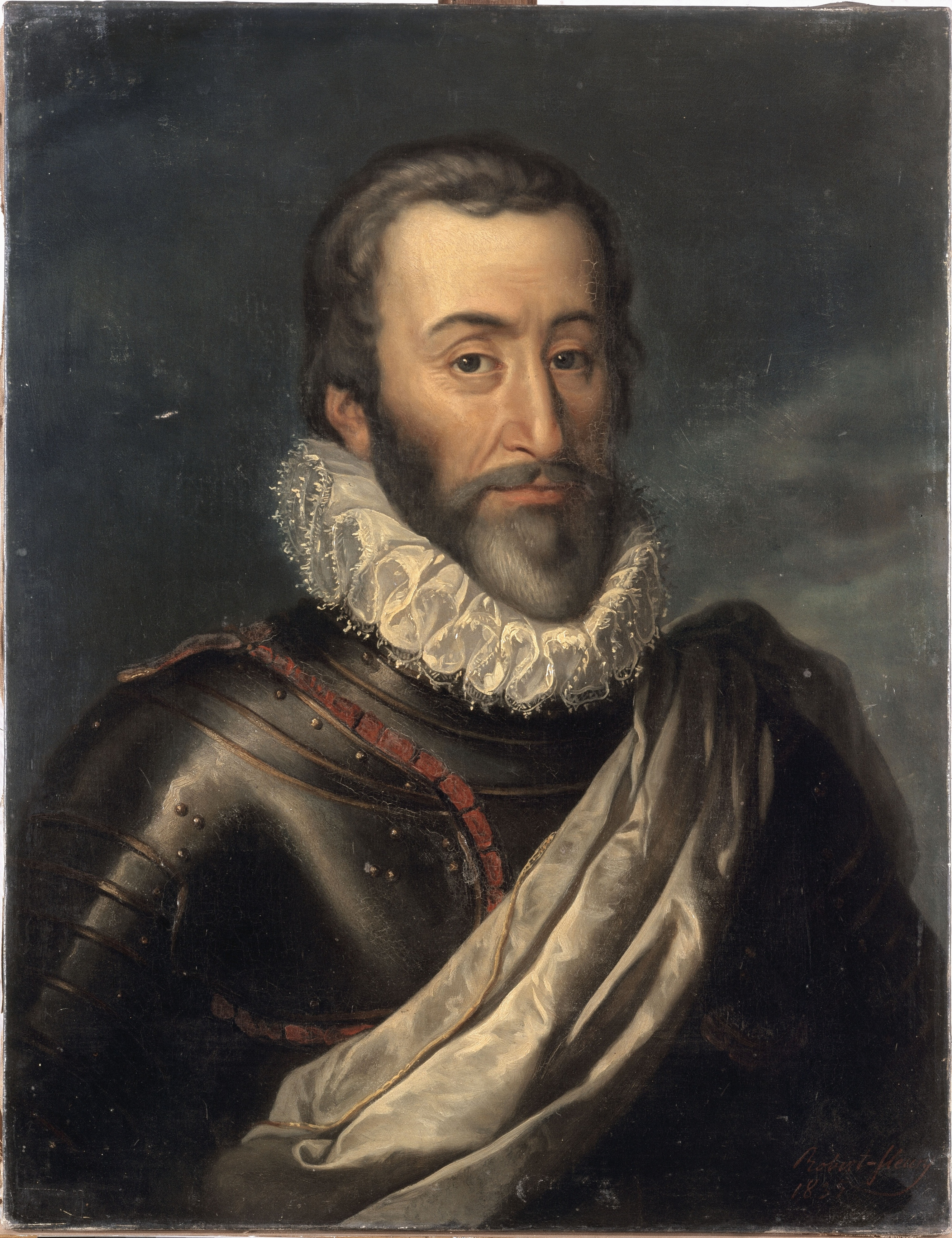 Commissioned by Louis Philippe I in 1834; copy after a painting in the château de Beauregard